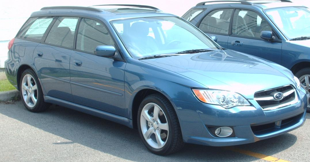 2008 Subaru Legacy 2.5i Limited Touring Wagon photographed in Montreal, Quebec, Canada.